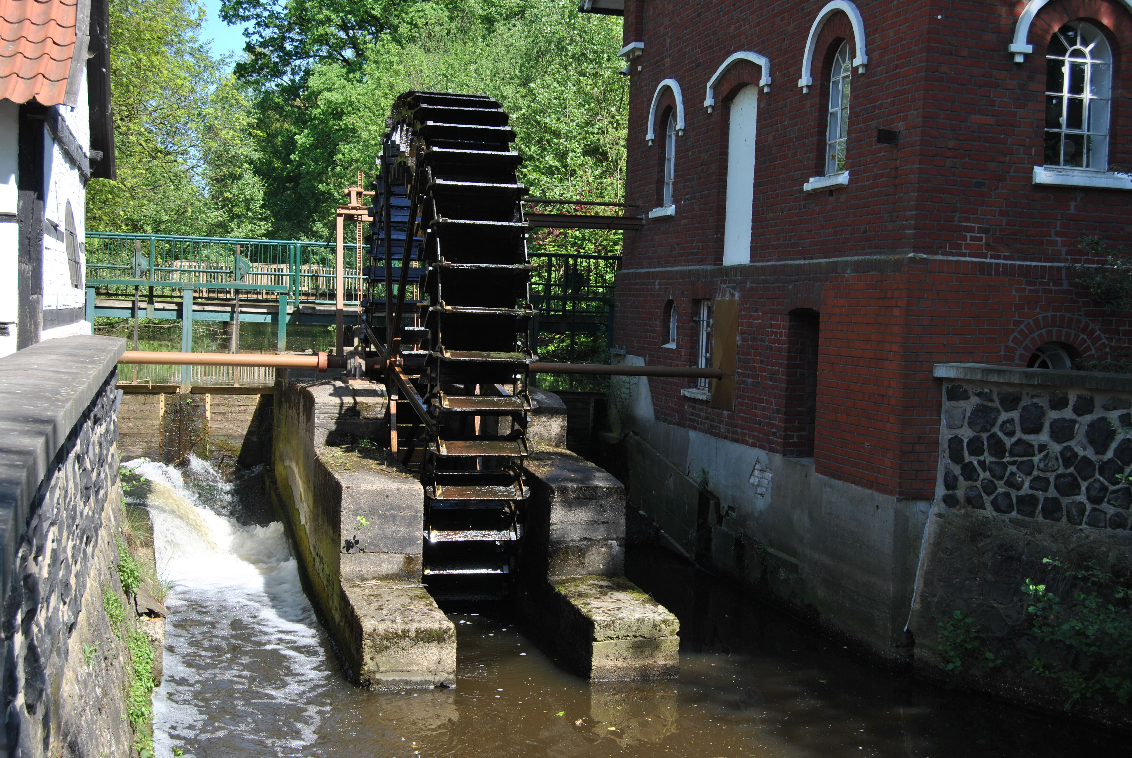 Watermill Hiesfeld in Dinslaken This photograph was taken with a Nikon D3000 This image shows a heritage building in Germany, located in the North Rhine-Westphalian city Dinslaken.